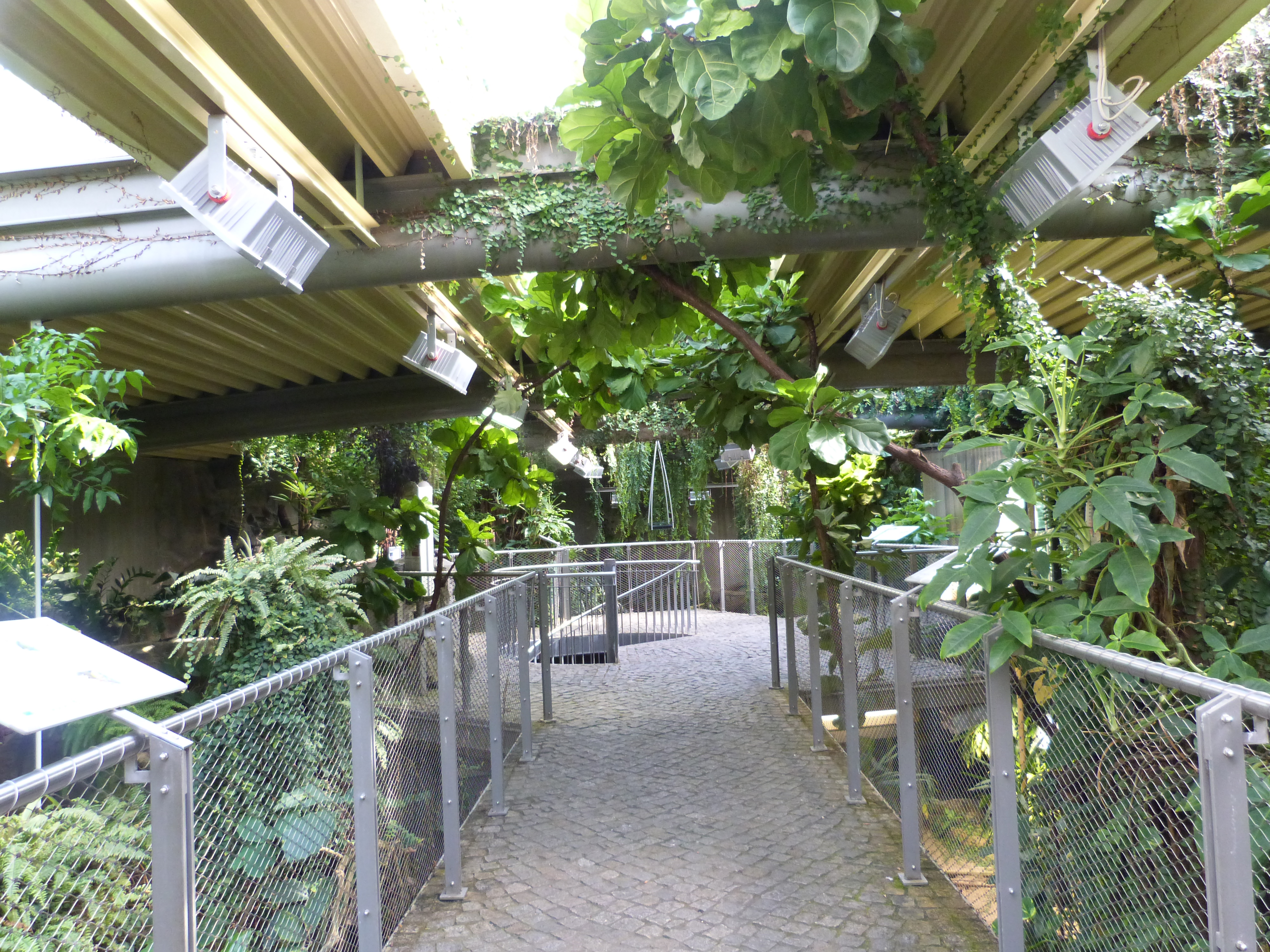 Crocodile house of the Zoo Halle (Saale)